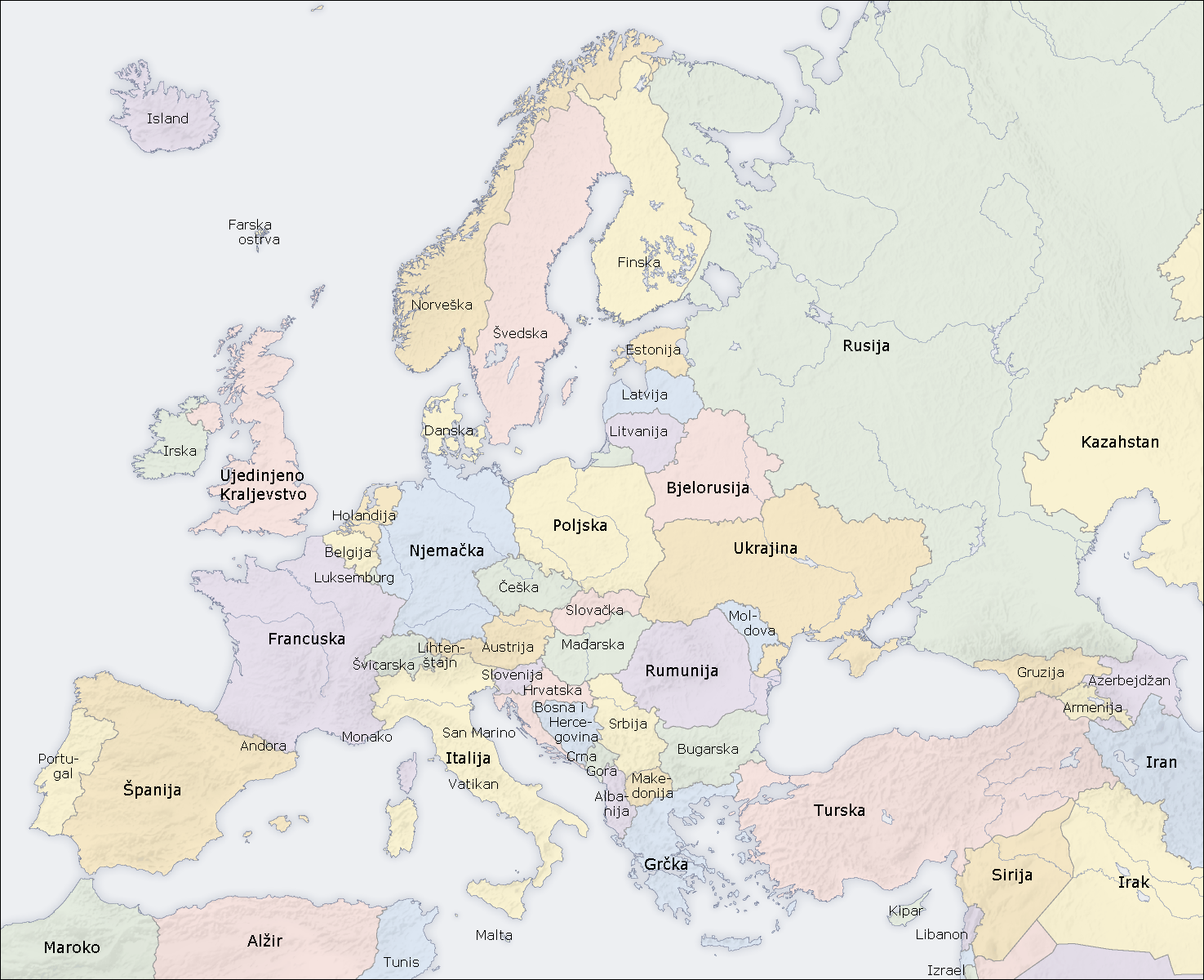 Map of countries in Europe